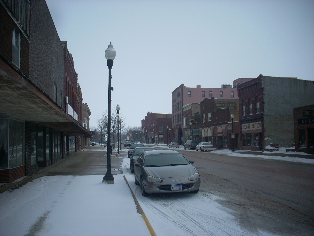 A view of Main St in Pipestone, Minnesota, part of the Pipestone Commercial Historic District, listed on the national register of historic places.